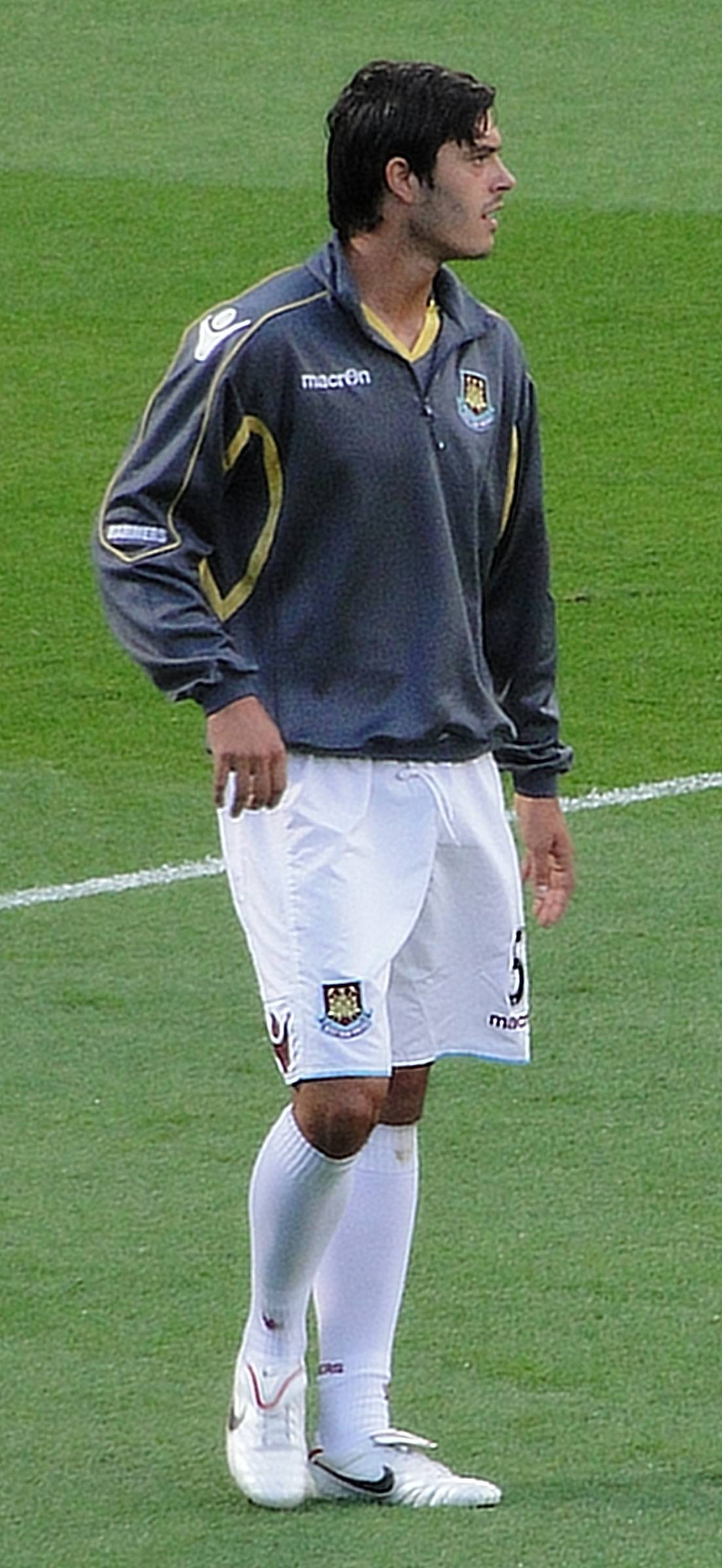 West Ham player James Tomkins, before League Cup game v Oxford United, 24/08/2010